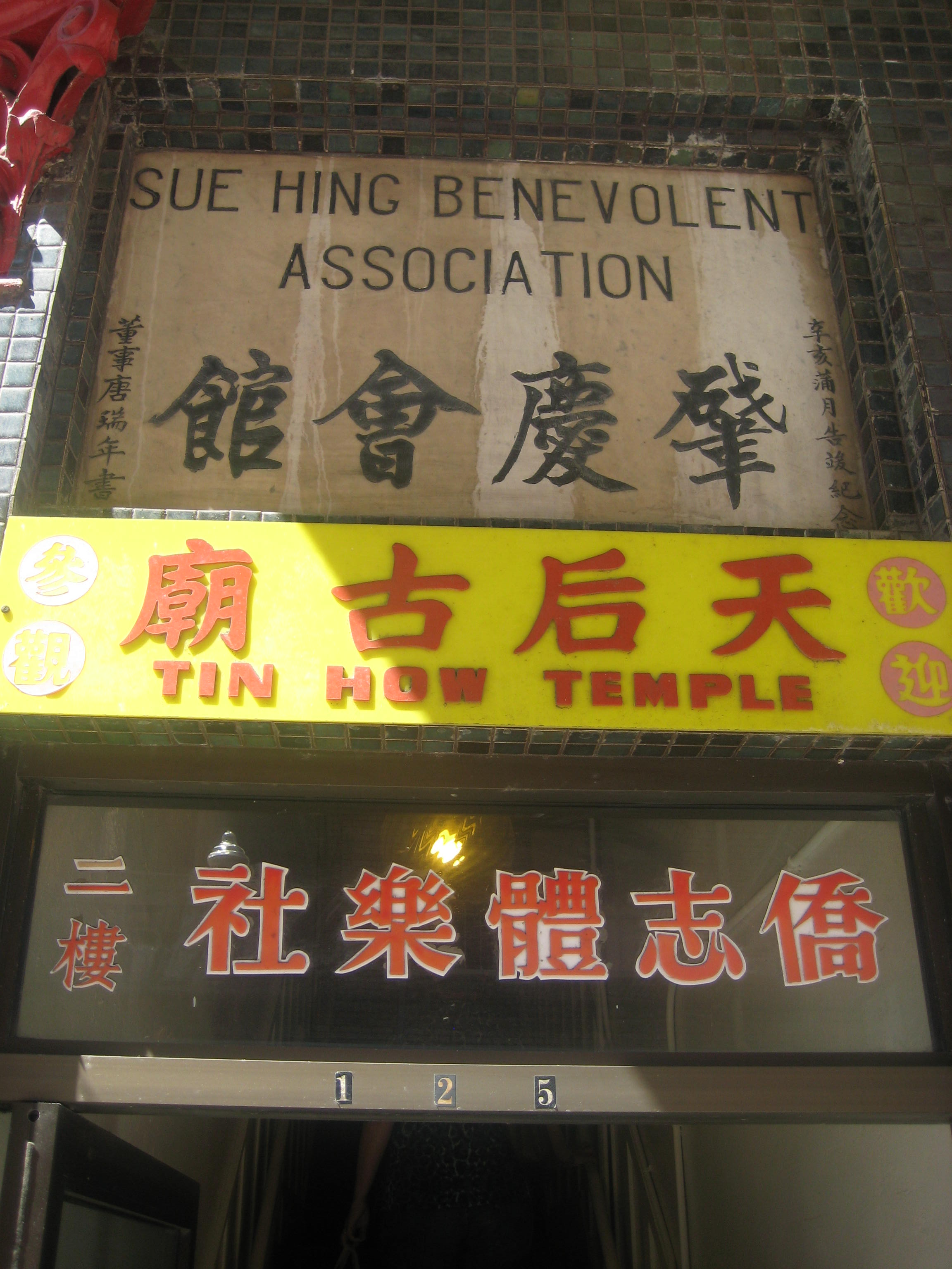 Sue Hing Benevolent Association in Chinatown San Francisco